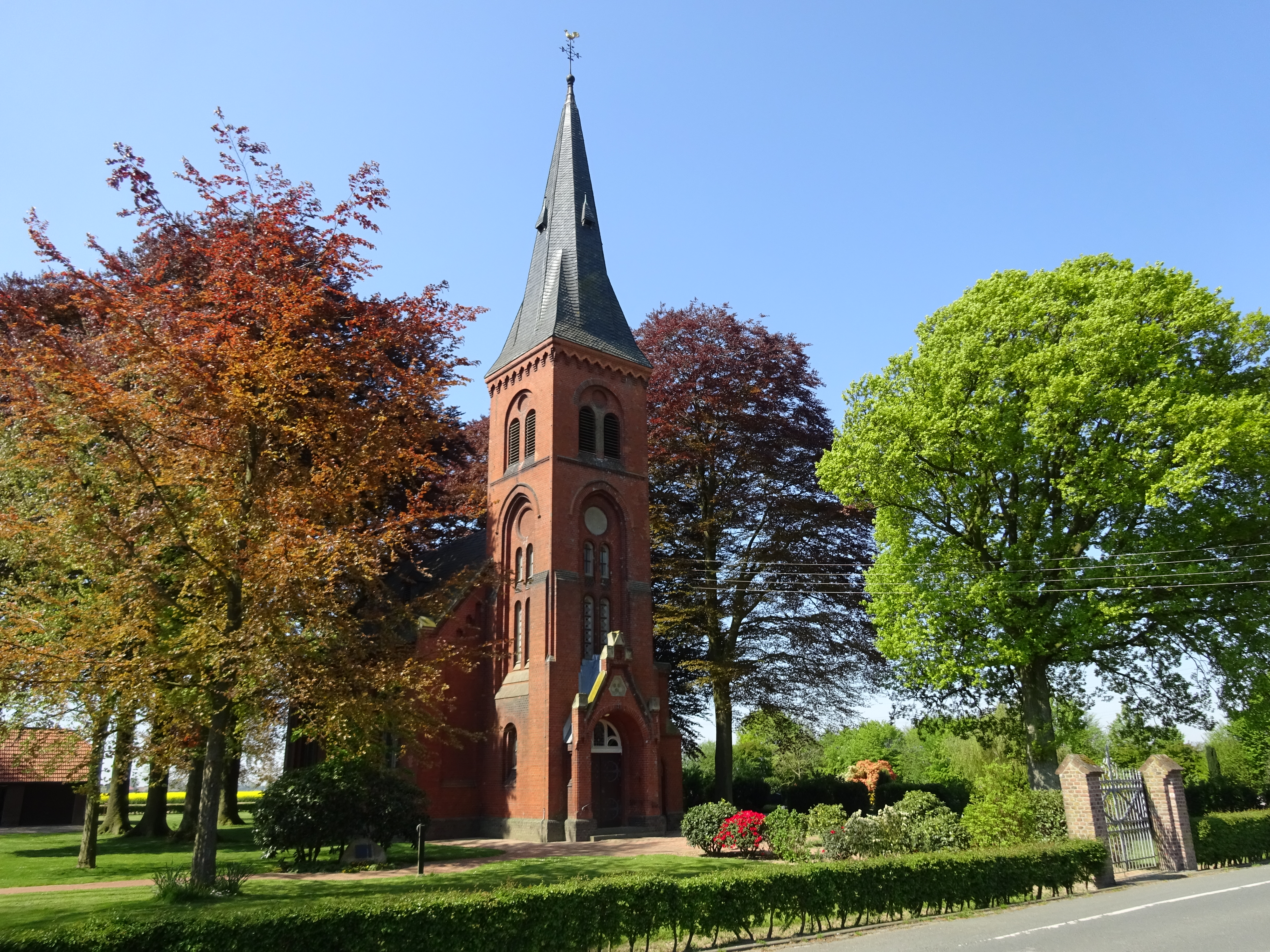 Protestant Church at Kalkar-Neulouisendorf, Germany; built after a design by architect Julis Otter, finished in 1898